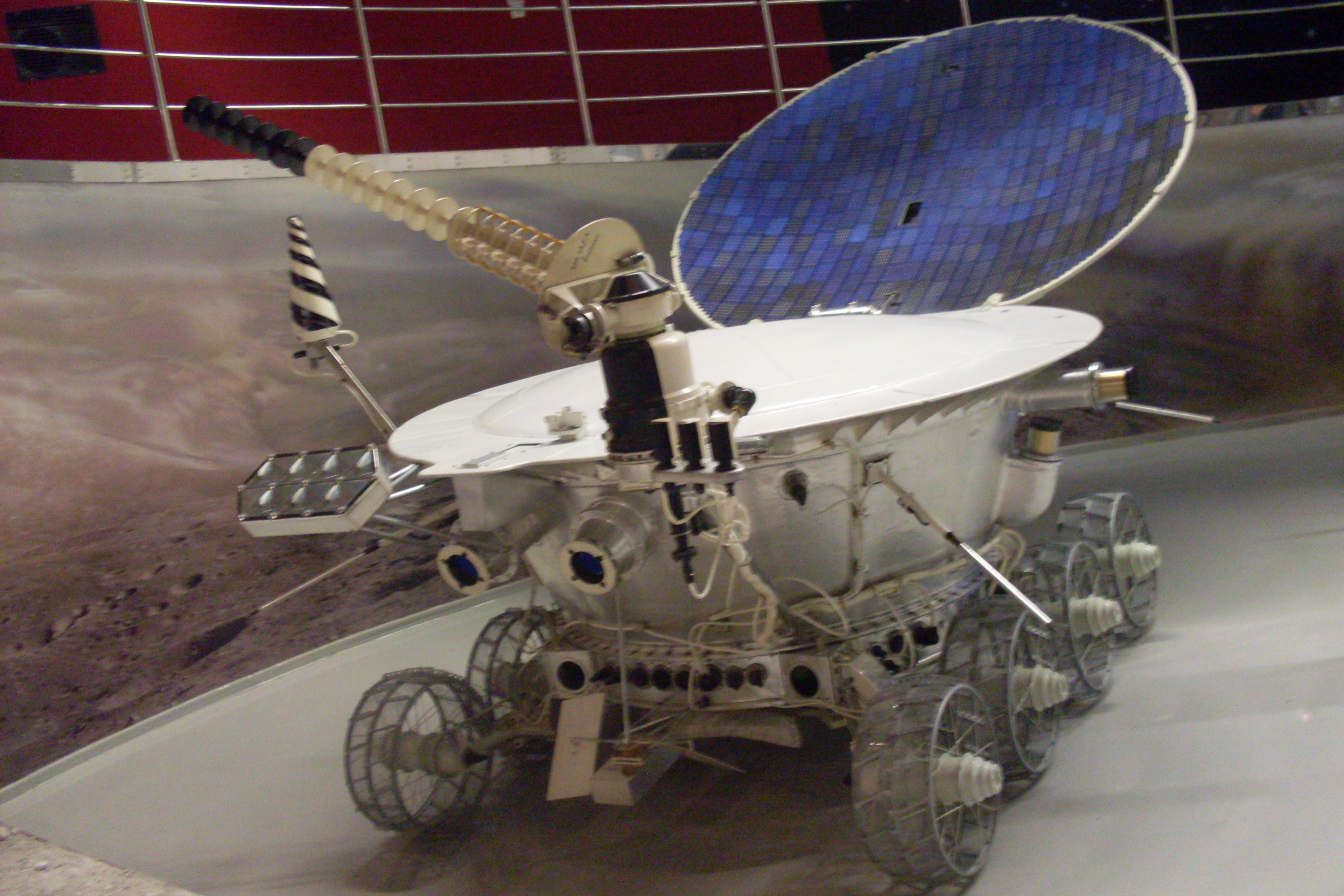 Mockup (1:1) of the moon rover Lunokhod 1 at Memorial Museum of Astronautics (Moscow).